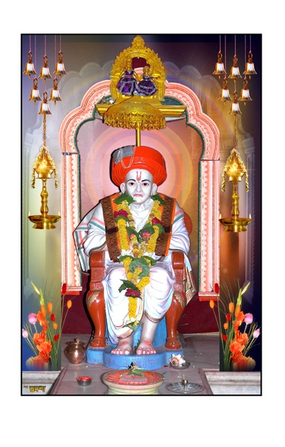 श्रीगुरू सिद्धपादाचार्य स्वामी उर्फ देव मामलेदार नाशिक